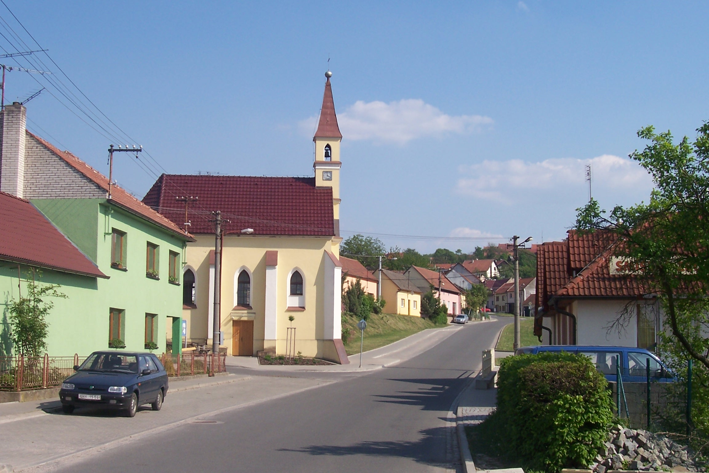 Mistřice in Uherské Hradiště District, Czech Republic. Holy-Trinity-chapel from 1883.